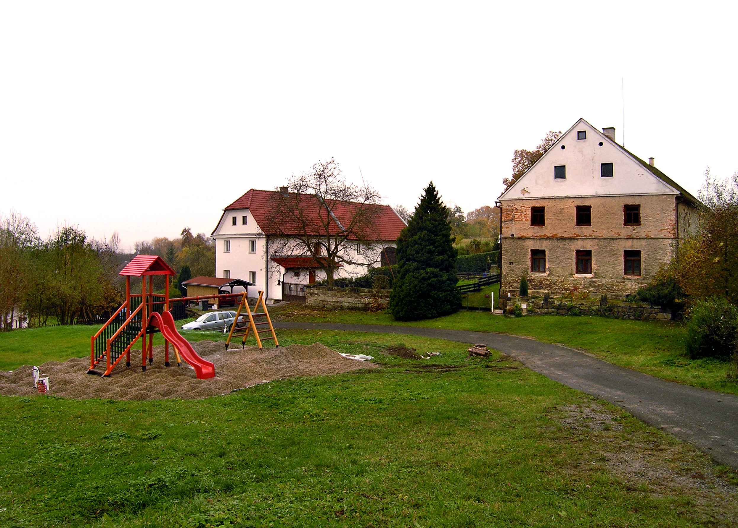 Playground in Kozly village, Czech Republic